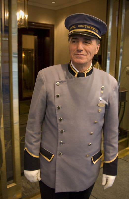 A hotel porter of the "Hotel Continental" (no place given in the original description)